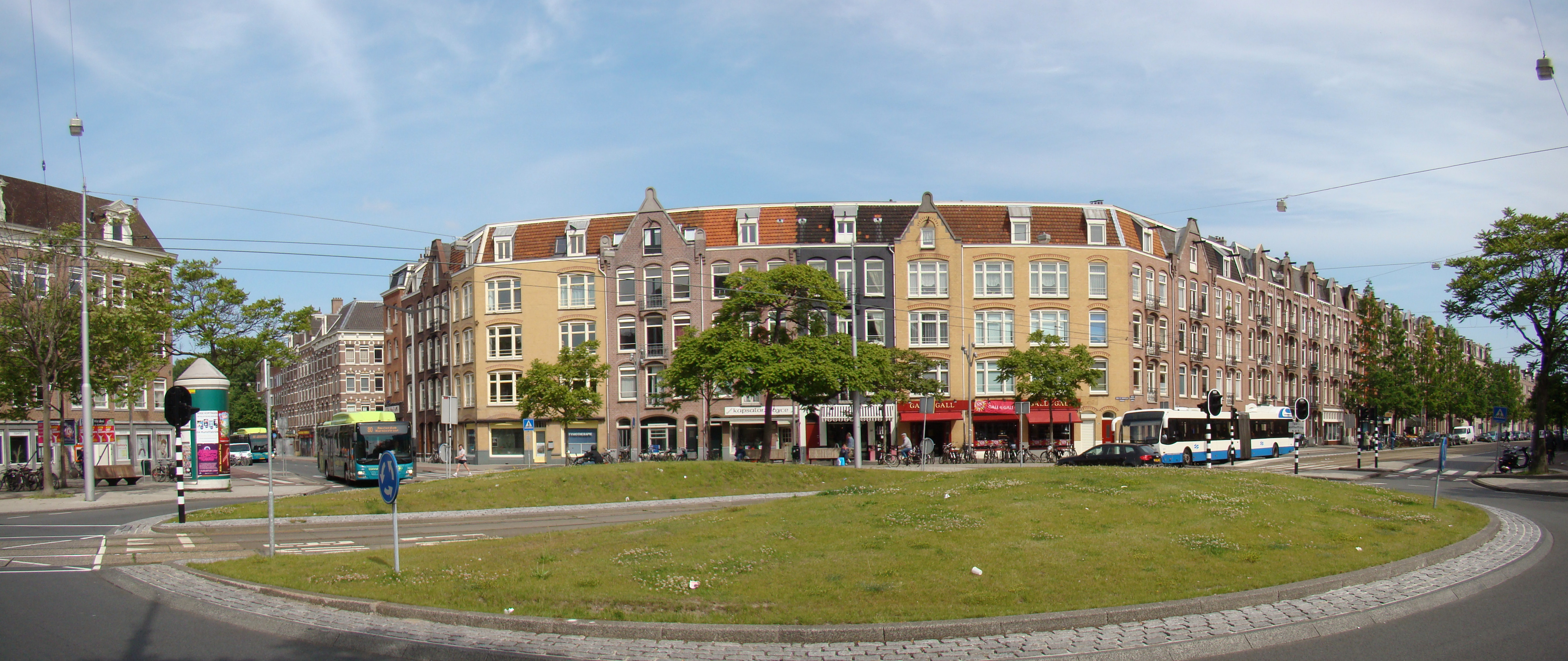 Hugo de Grootplein. Amsterdam, The Netherlands